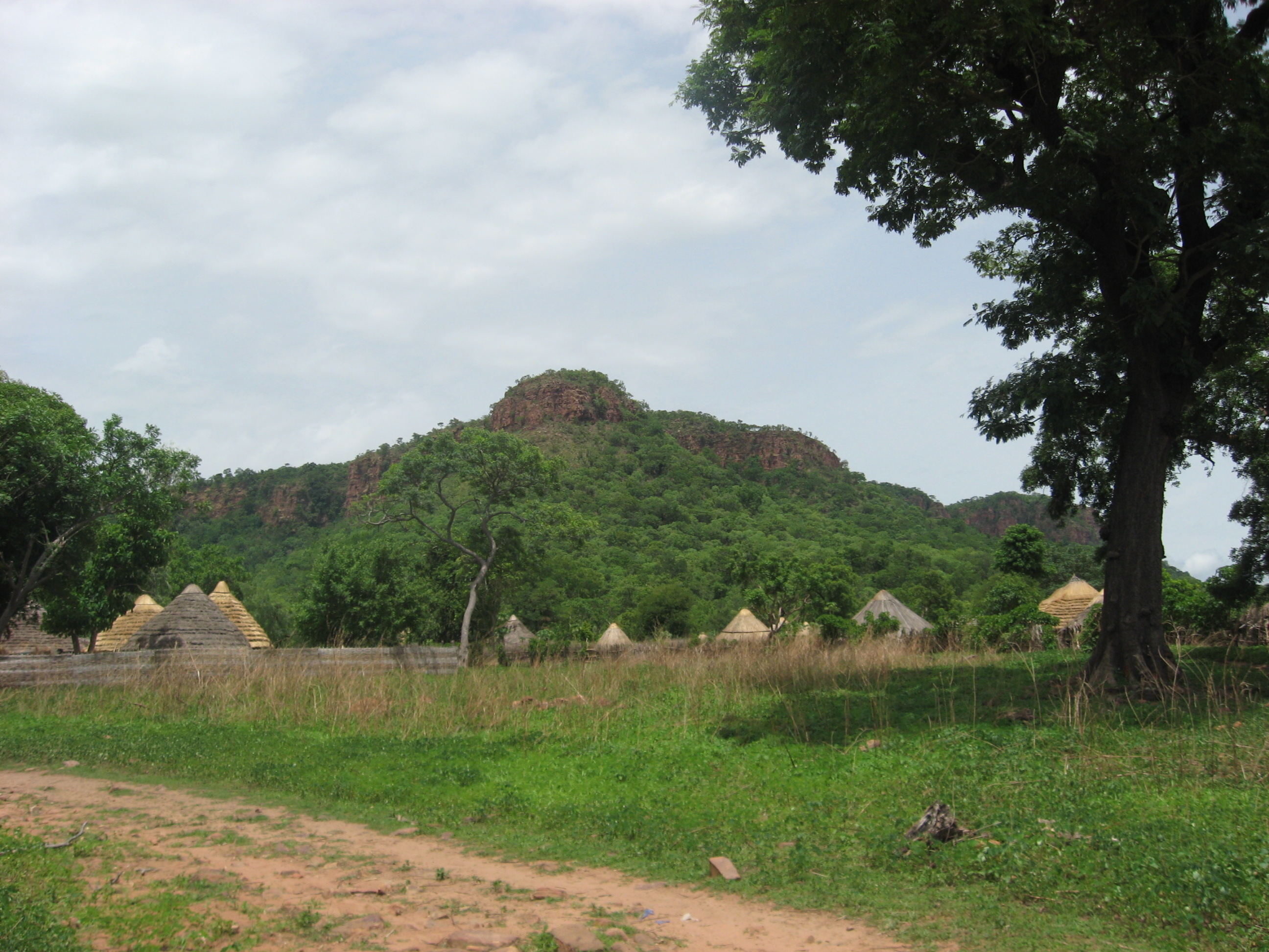 Dindefelo, Eastern Senegal)